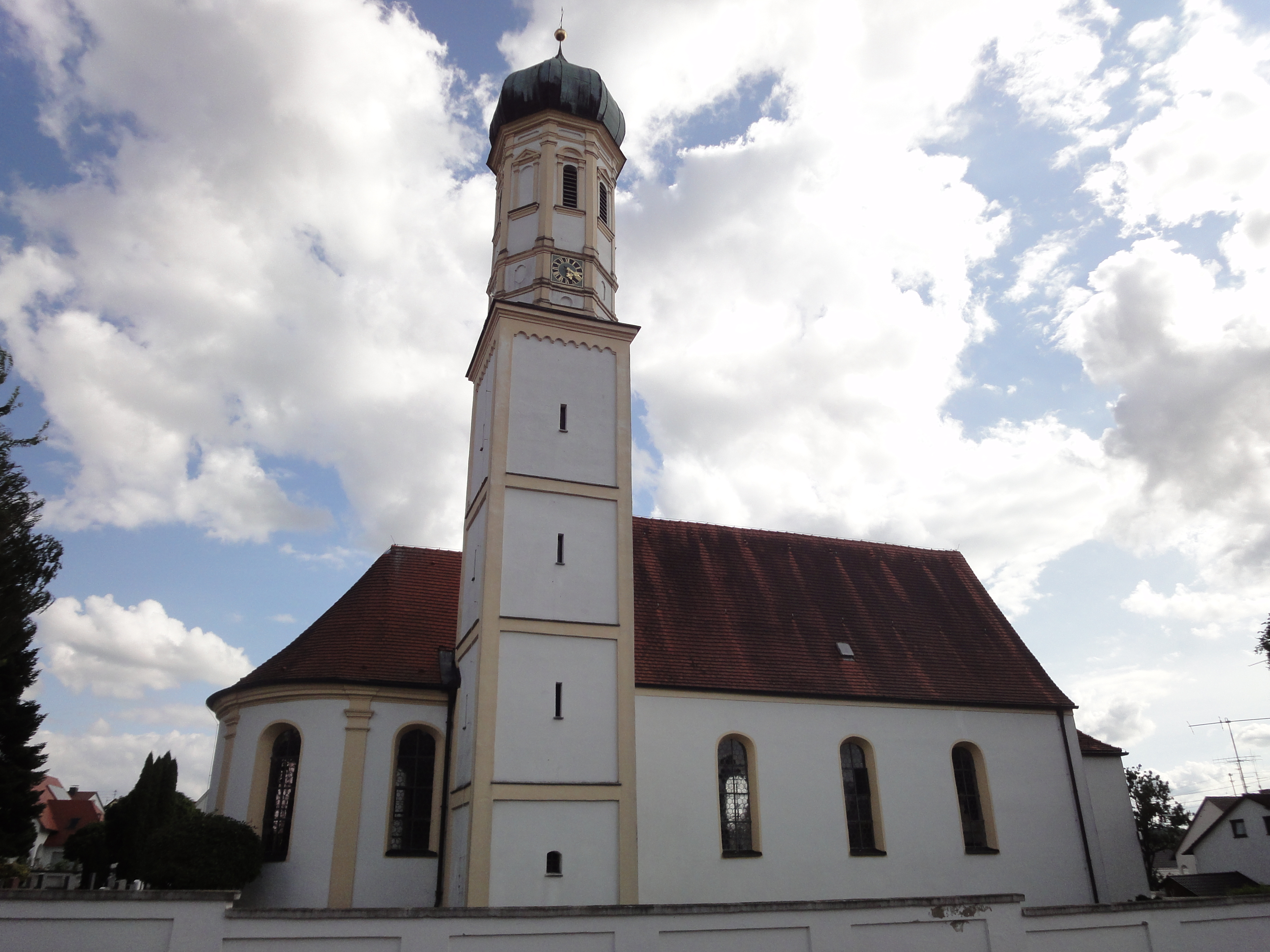 church in Gersthofen-Hirblingen